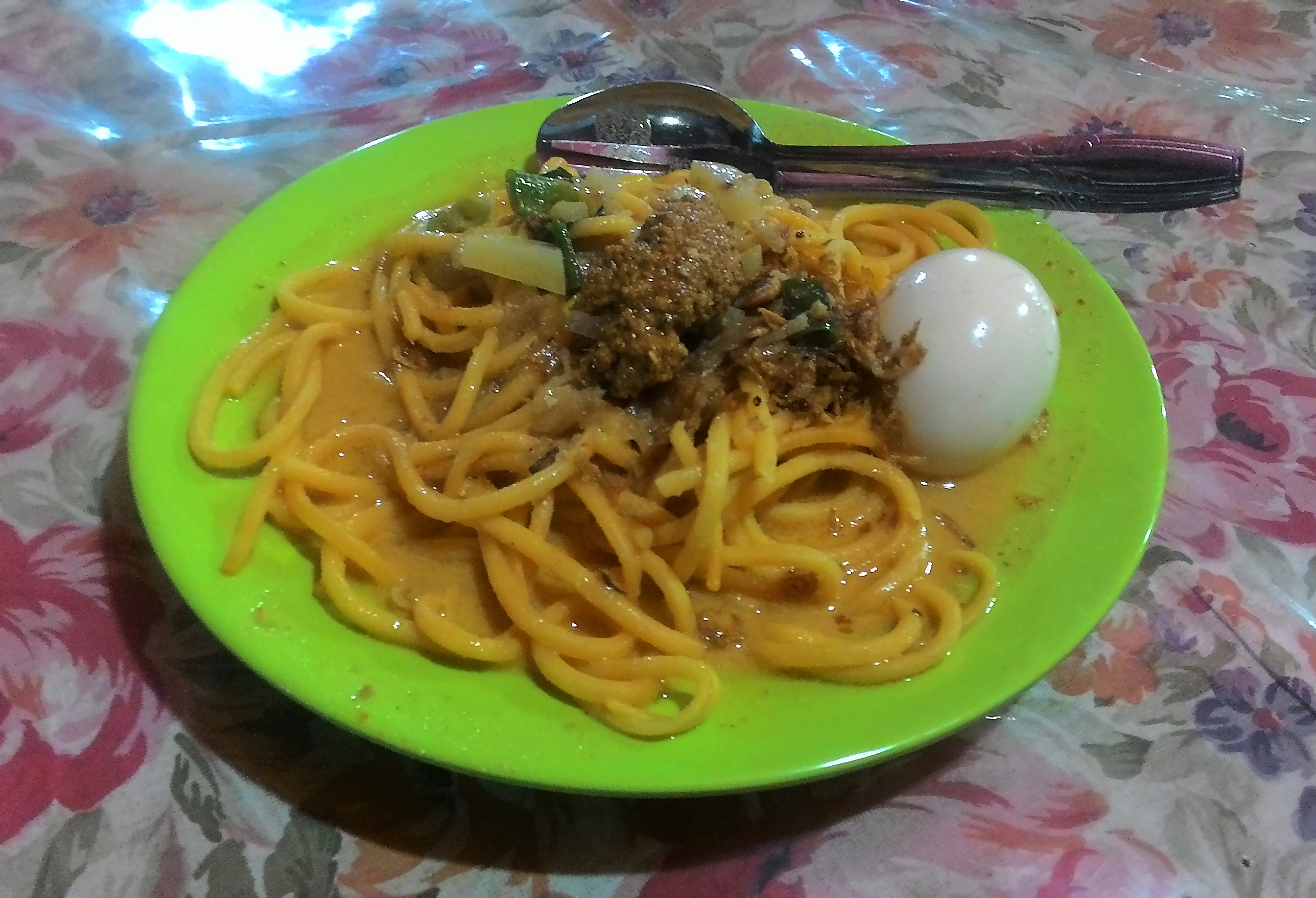 Mie Gomak is a spicy thick noodle dish originated from Batak culinary tradition of North Sumatra, Indonesia. The spice used in this dish is andaliman pepper commonly used in Batak cuisine. Here the noodle is served with vegetables including chayote, and also hard boiled egg.